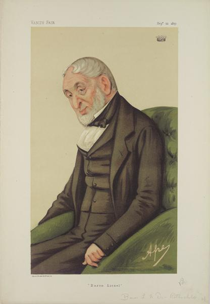 Caricature of Baron LN de Rothschild. Caption read "Baron Lionel".